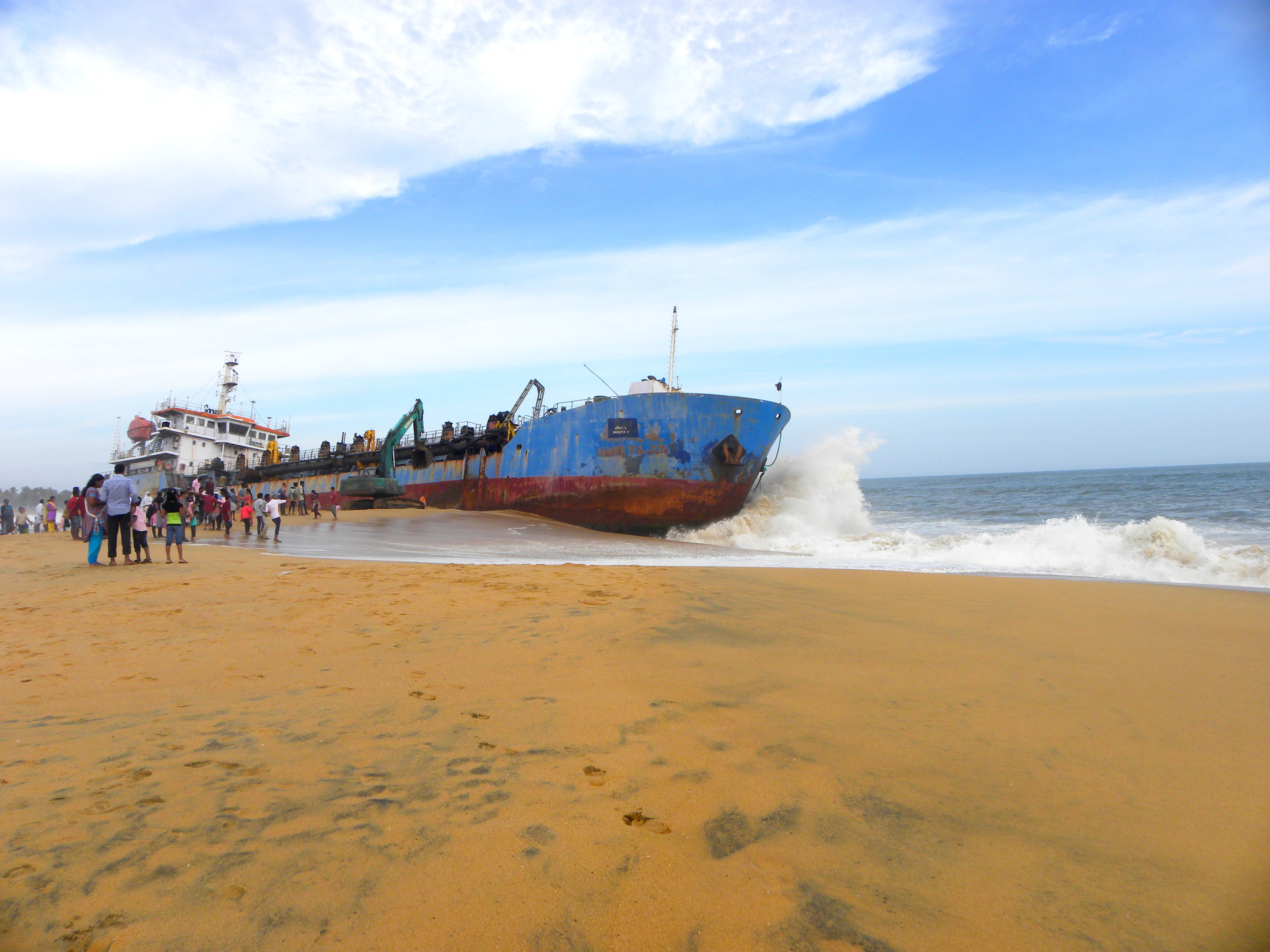 A dredger ship called "Hansitha" is now at Mundakkal coast near Kollam city in India